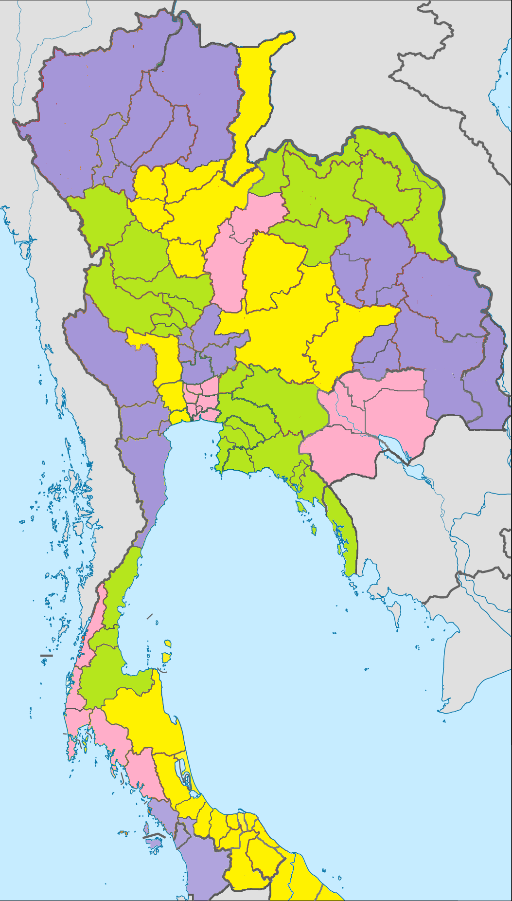 Map of Thailand